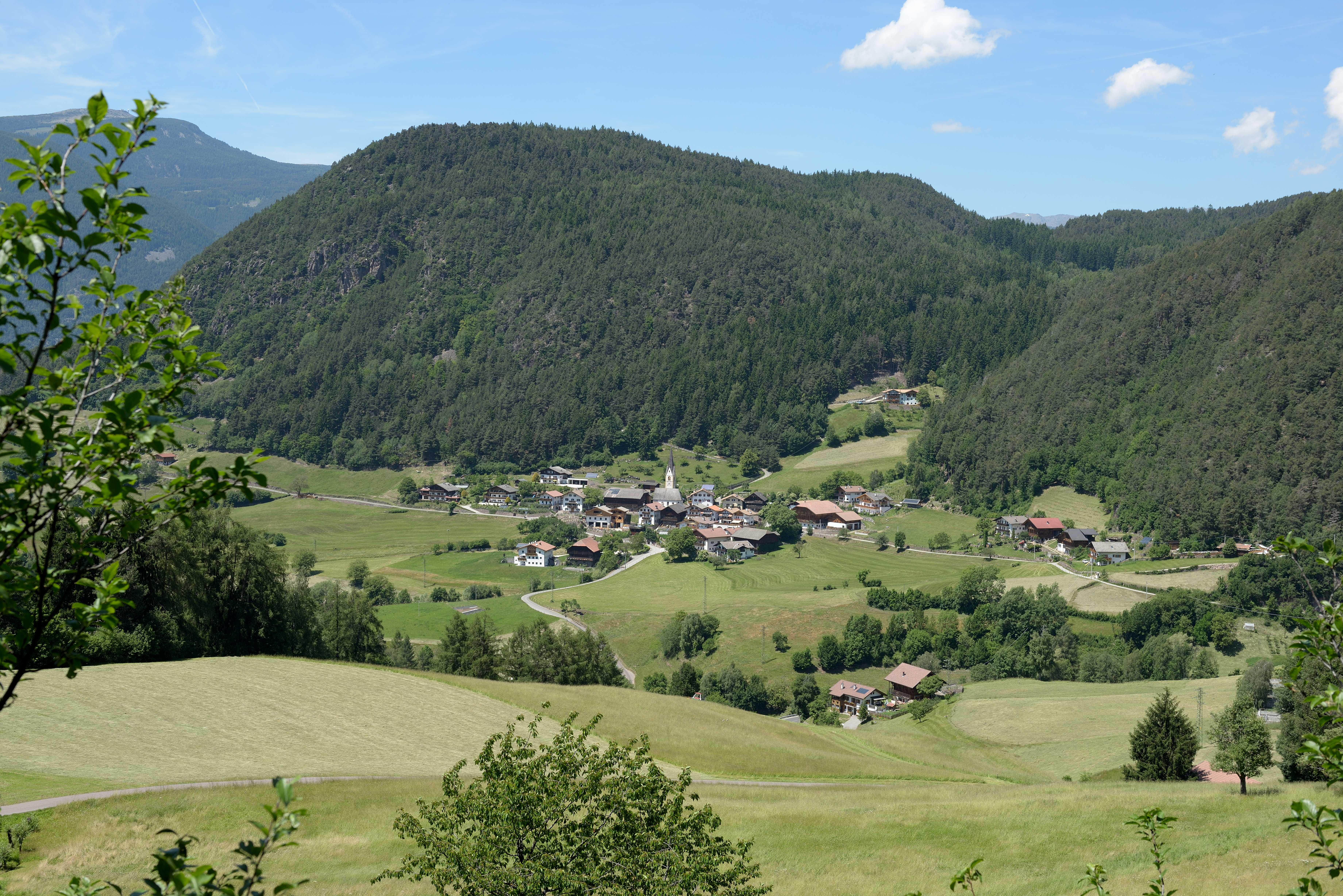 The hamlet Tisens and the Saint Nikolaus church in Kastelruth